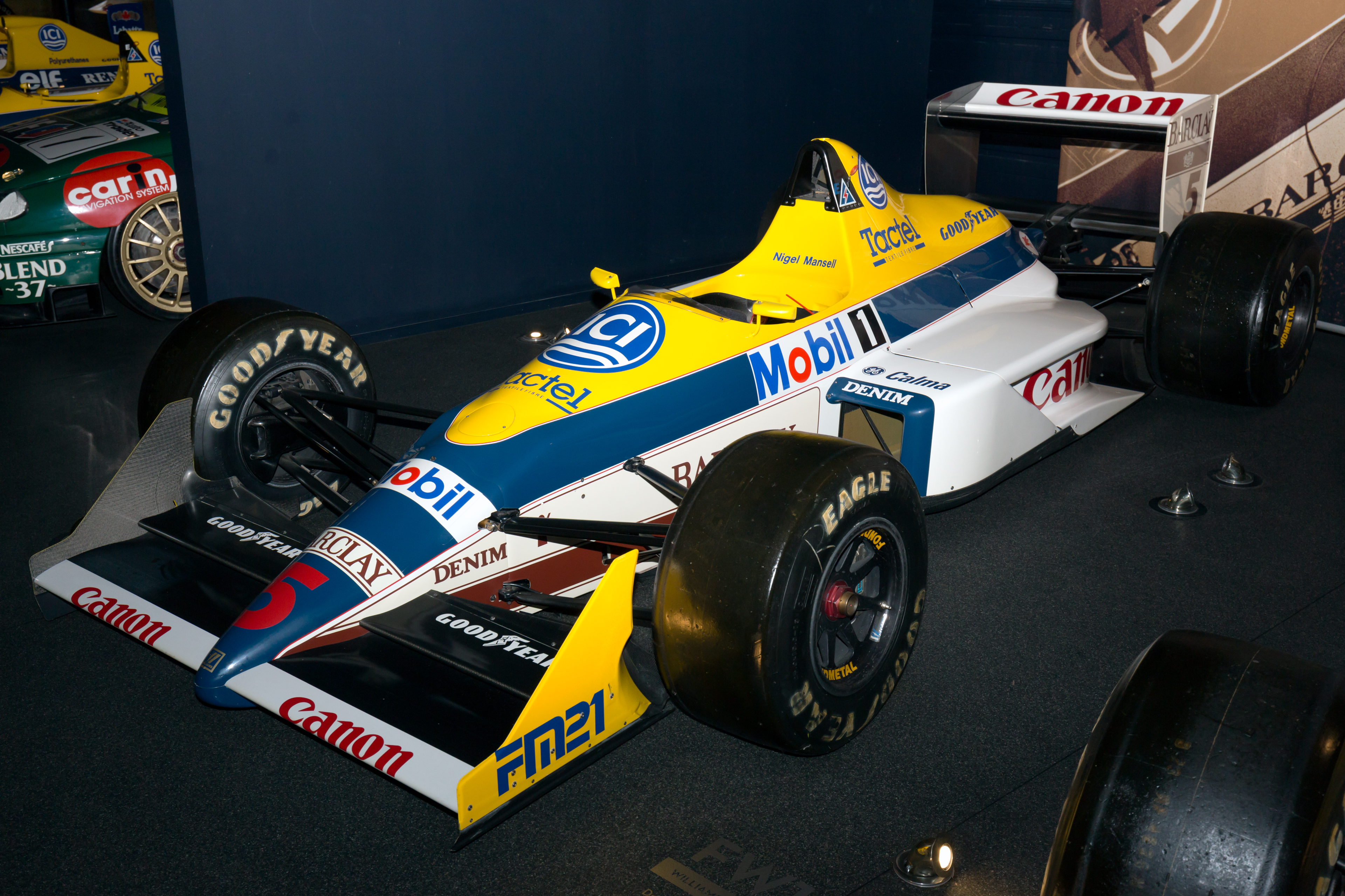 Williams Conference Centre (Grove): Williams FW12B-Judd of Nigel Mansell